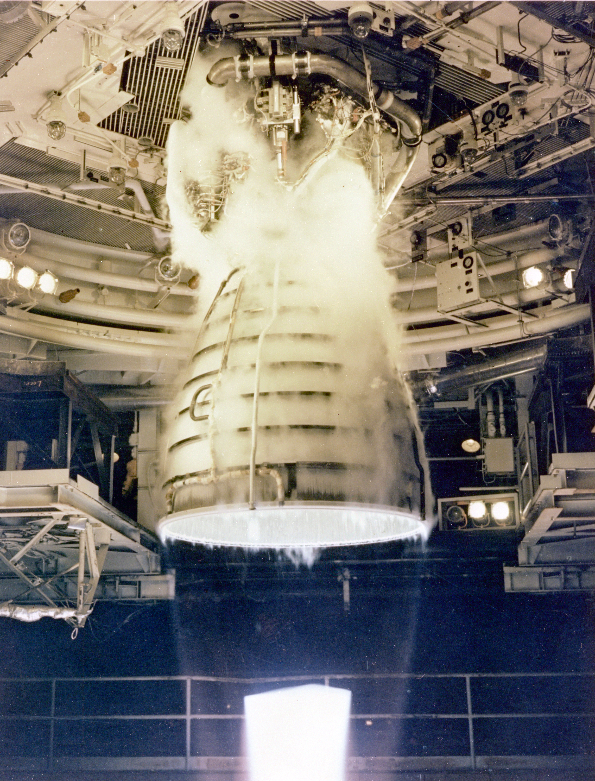 A Space Shuttle Main Engine (SSME) undergoing a full power level 290.04 second test firing at the National Space Technology Laboratories (currently called the Stennis Space Center) in Mississippi. The firings were part of a series of developmental testing designed to increase the amount of thrust available to the Shuttle from its three main engines. The additional thrust allowed the Shuttle to launch heavier payloads into orbit. The Marshall Space Flight Center (MSFC) had management responsibility of Space Shuttle propulsion elements, including the Main Engines.